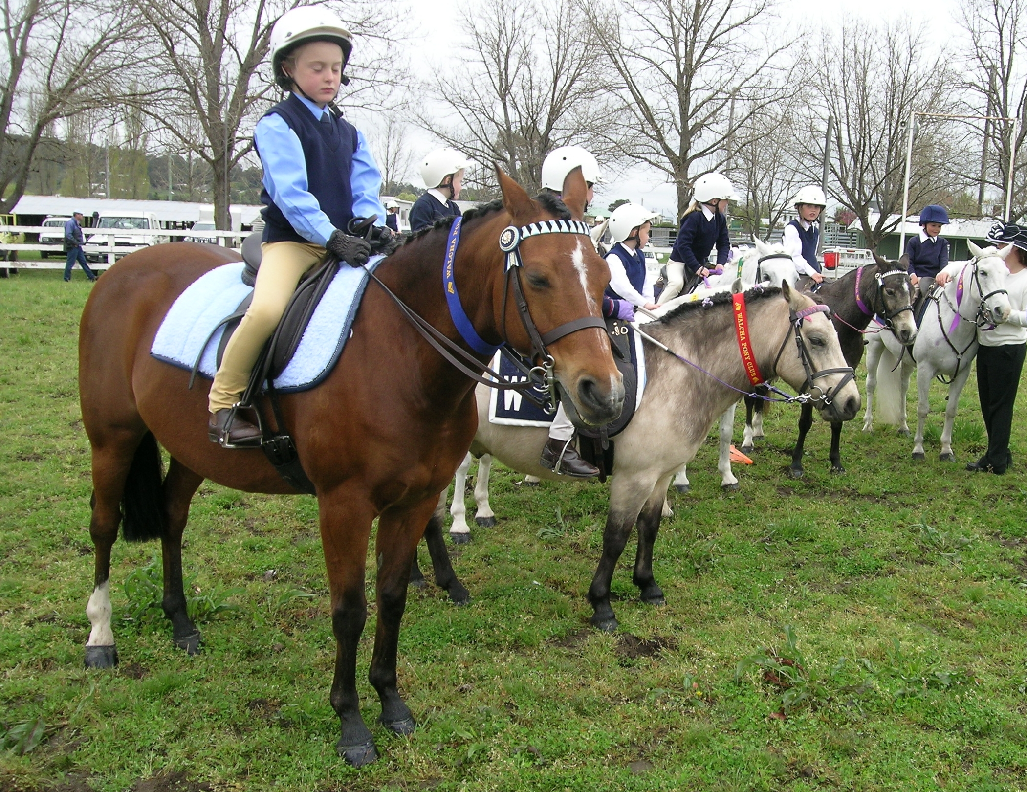 Young pony club members at a gymkhana, Walcha, NSW.